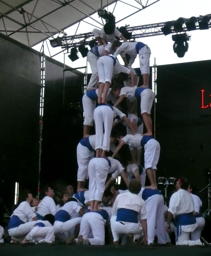 Falcons de Vilanova in Barcelona